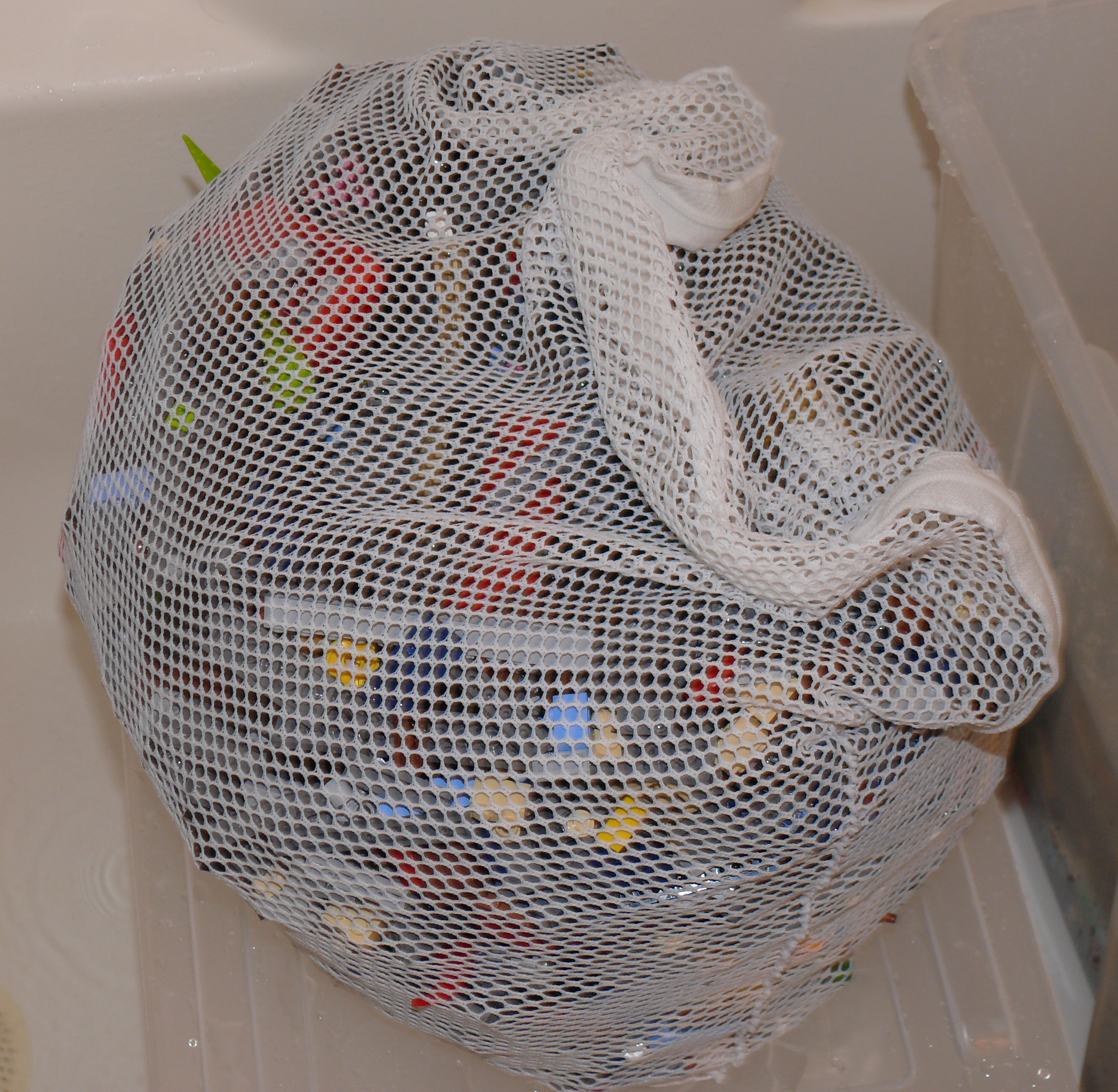 1. Soak in soapy water. 2. Transfer to mesh bag and rinse in bathtub. 3. Use laundry basket, lined with towel, to carry to living room. 4. Dump out on towels on living room floor, with fan blowing. For the full story and discussion see the blog post